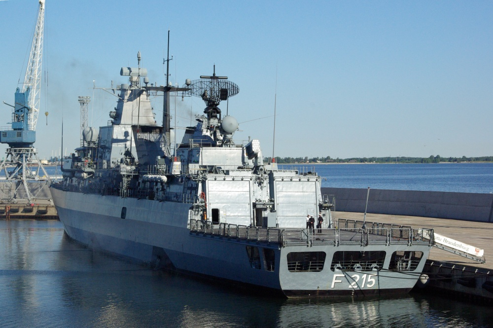 author: Madis Veskimeister, in Port of Tallinn, 16th of June 2007